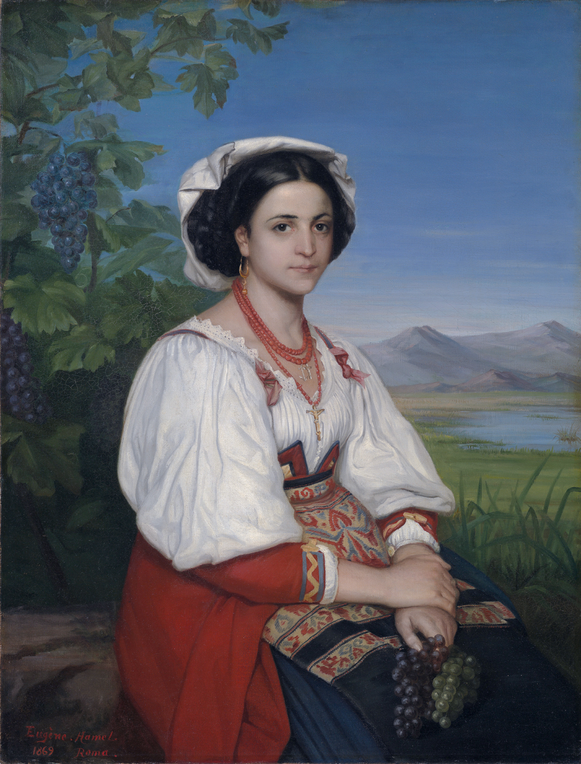 Giovannina Ciociarde oil on canvas 90,5 x 76,5 cm signed b.l.: Eugène . Hamel. / 1869 Roma.